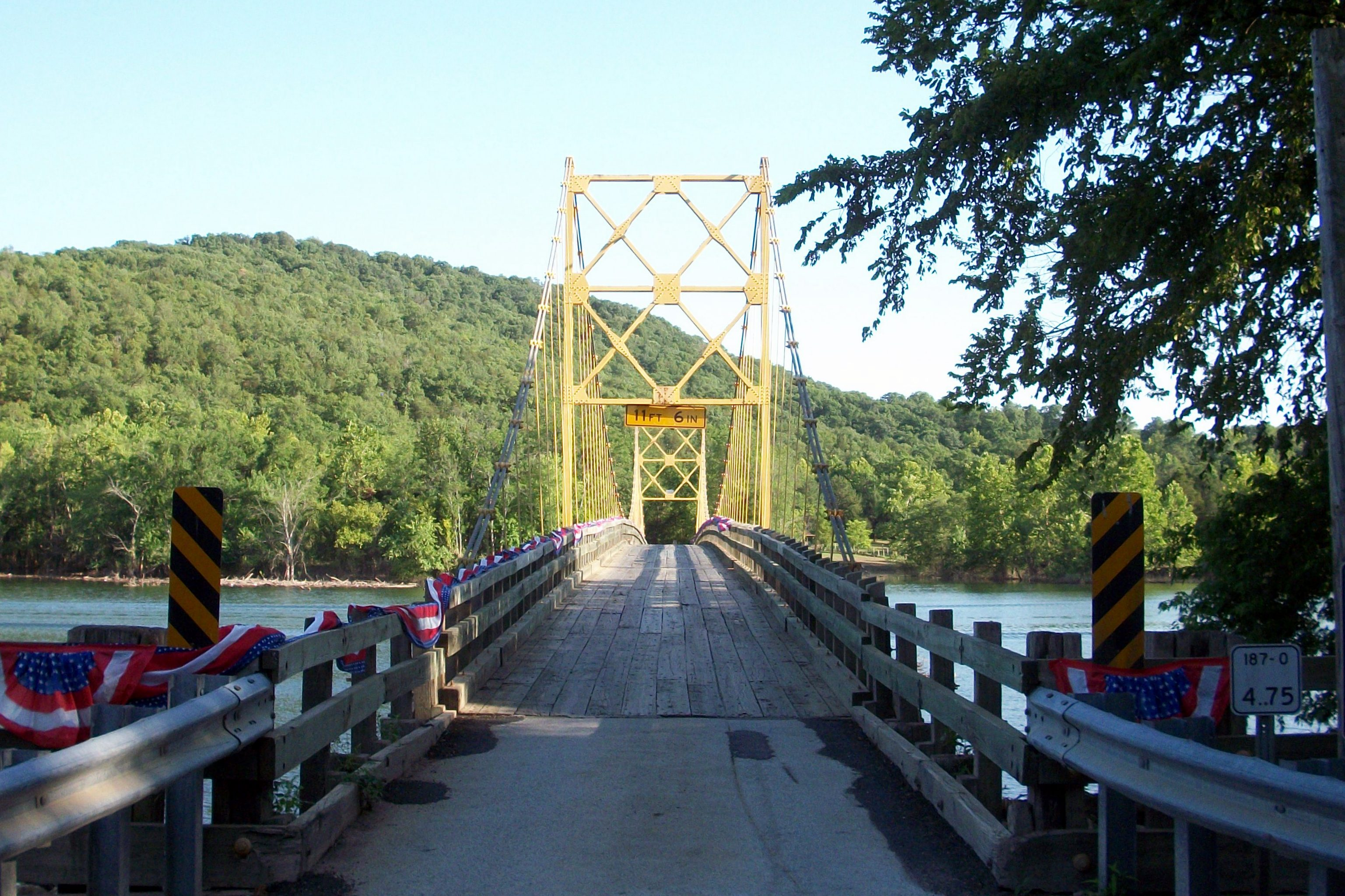 Beaver Bridge facing south